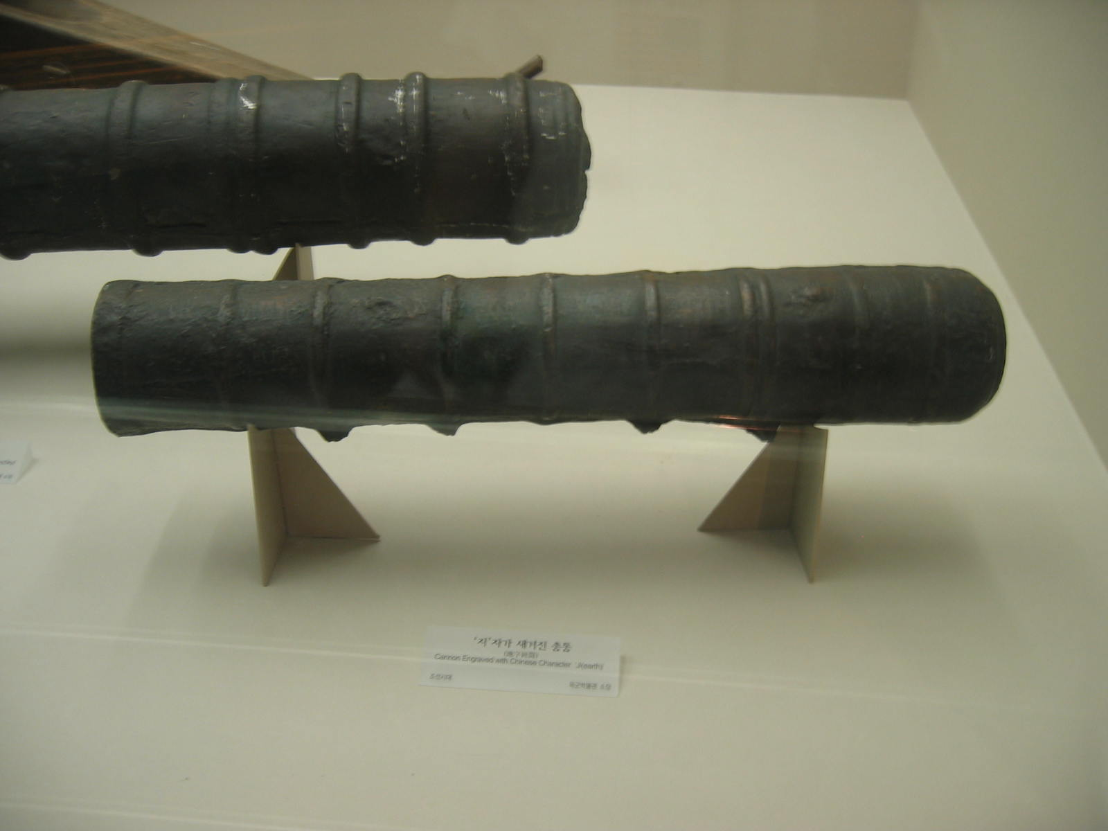 Korean cannon used by the Joseon Dynasty navy